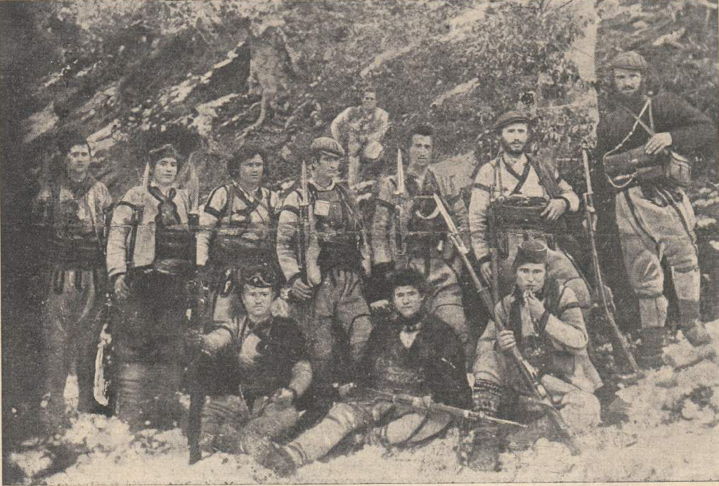 Cheta of Georgi Acev